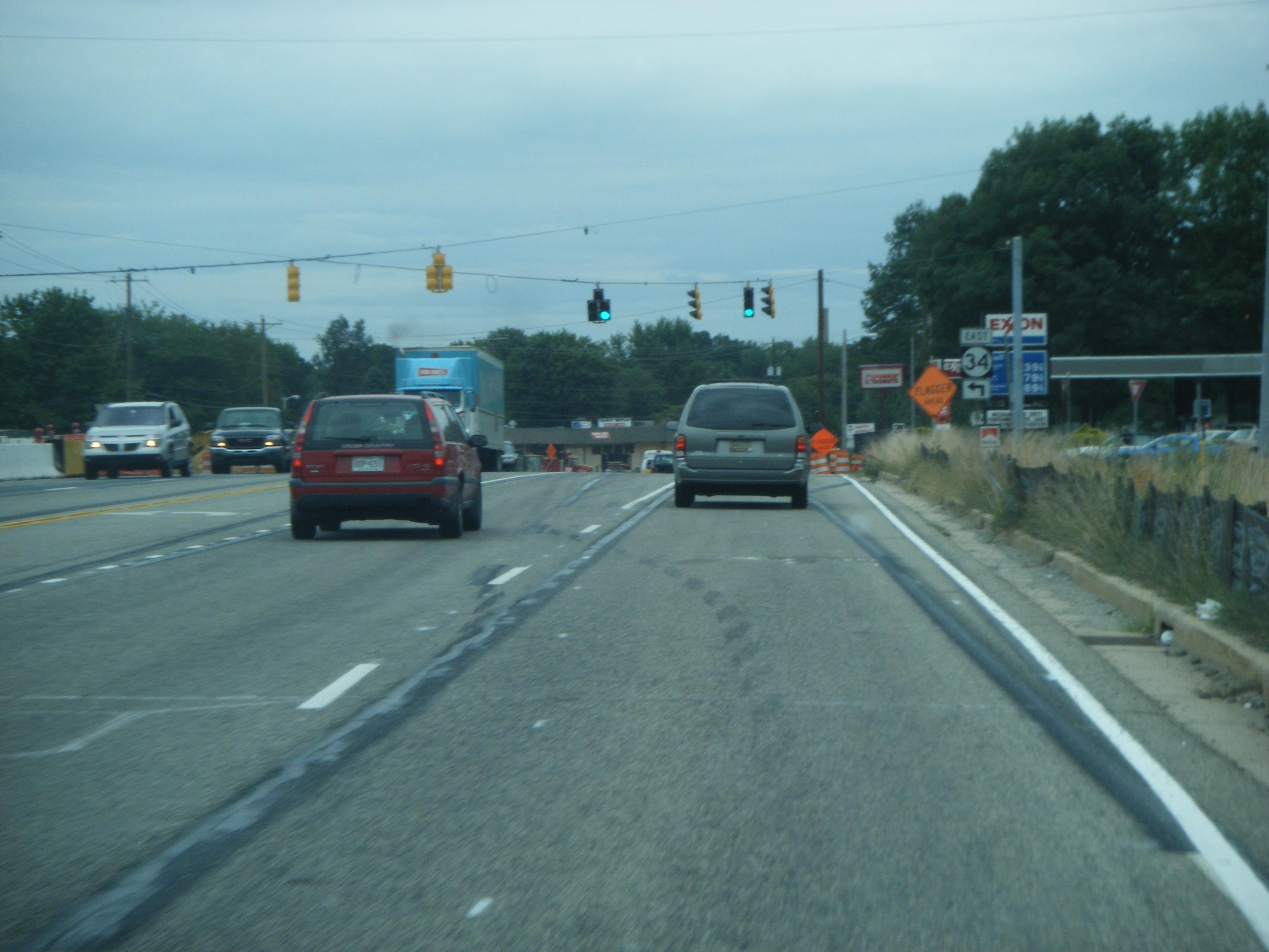 Southbound Delaware Route 141 (Centre Road) at the intersection with Delaware Route 34 (Faulkland Road) near Prices Corner, Delaware.